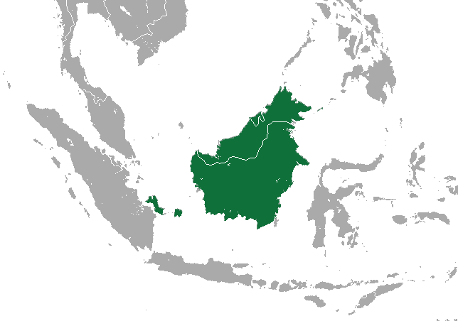 The range of the Bornean Slow Loris (Nycticebus menagensis) species complex. Note that in 2012, N. menagensis, which until then was believed to be a single species, was shown to actually be four distinct species: N. bancanus and N. borneanus – previously thought to be synonyms – were elevated to species status, and a new species – N. kayan – was also distinguished from the Bornean slow loris. Accordingly, this range map is now obsolete.